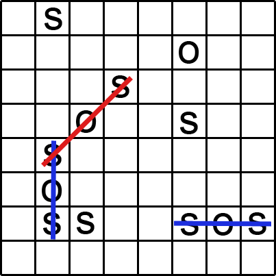 An in-progress game of "SOS", a tic-tac-toe style game.